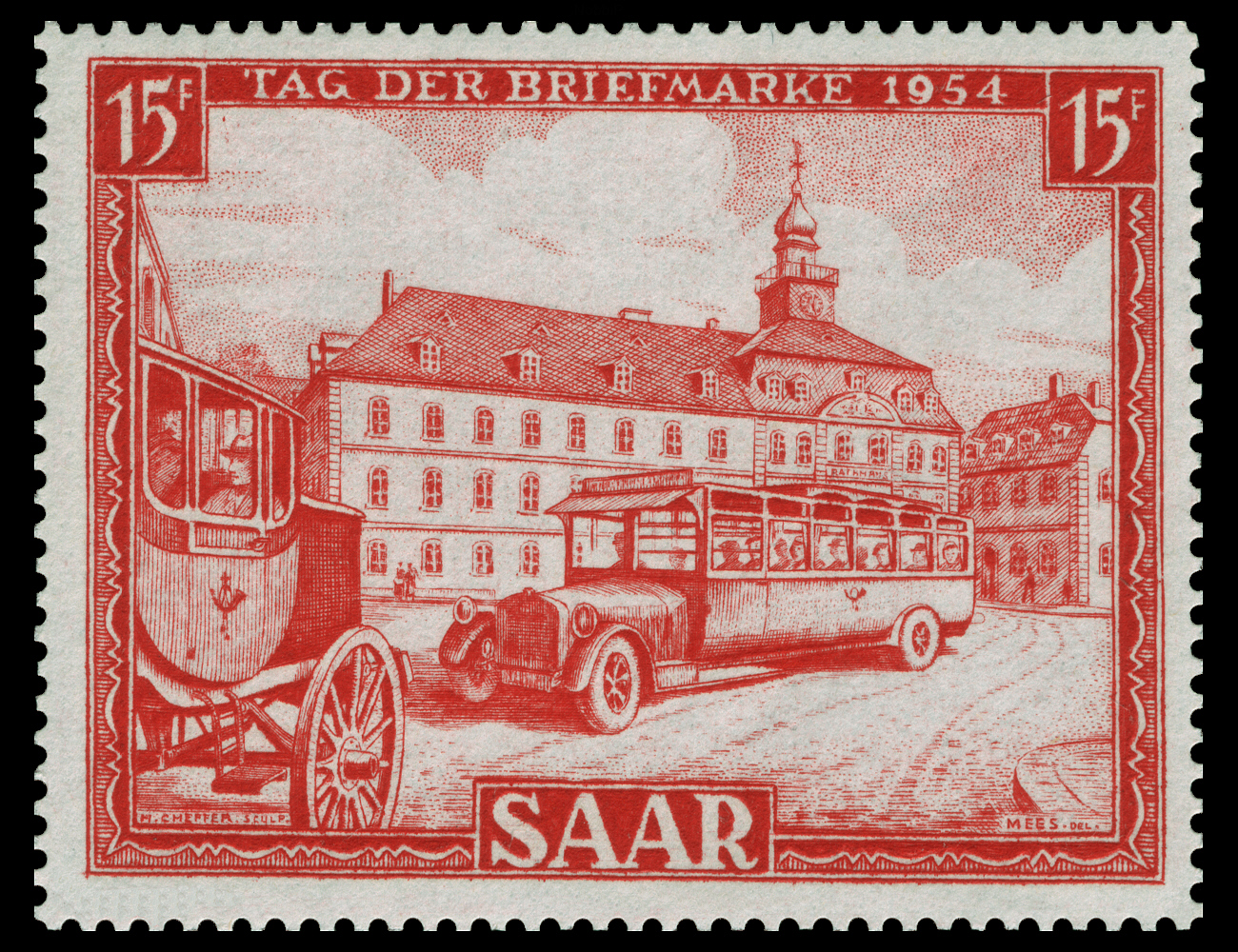 International Stamp Day 1954